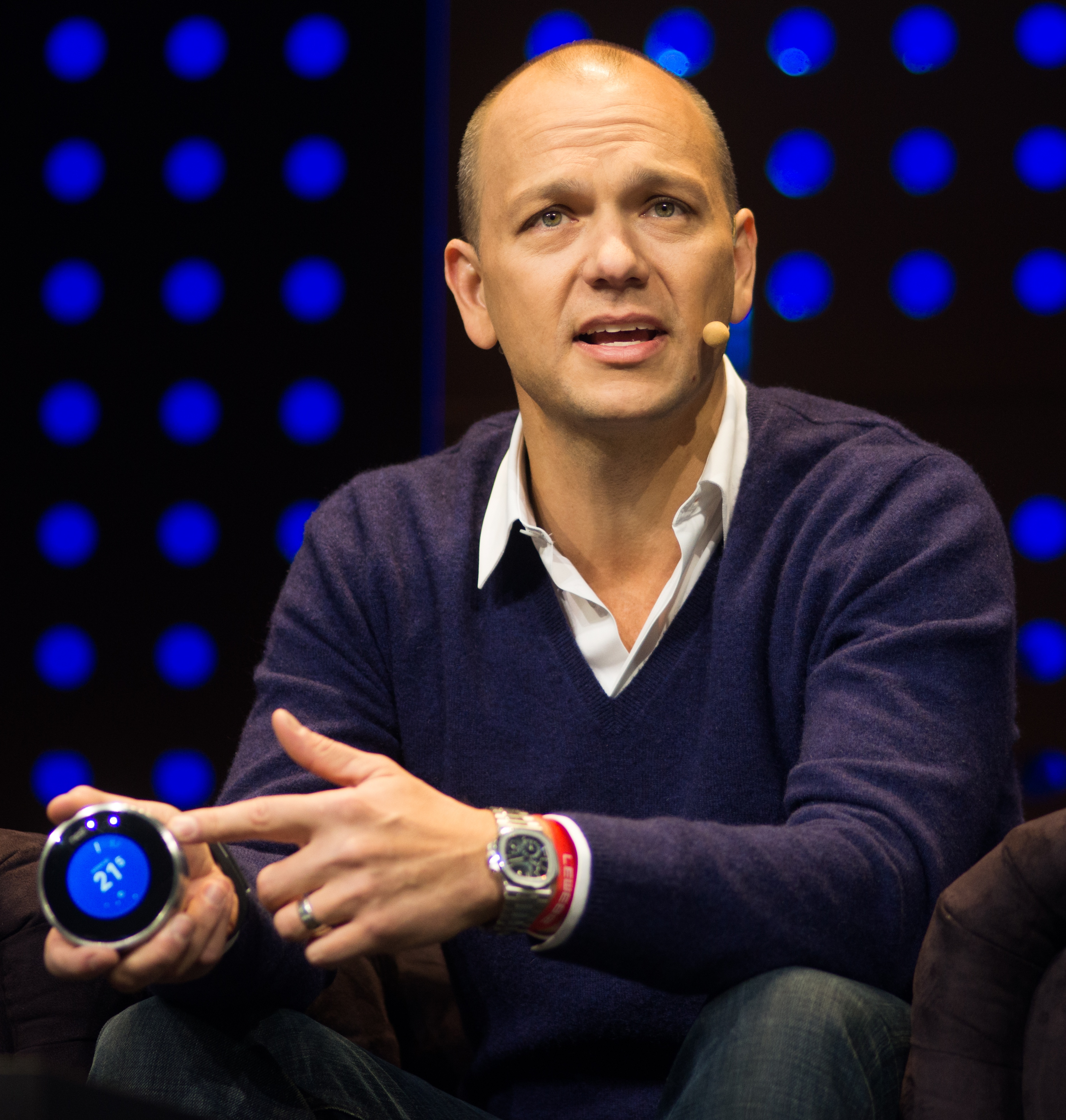 Tony Fadell, Founder & CEO, Nest Labs